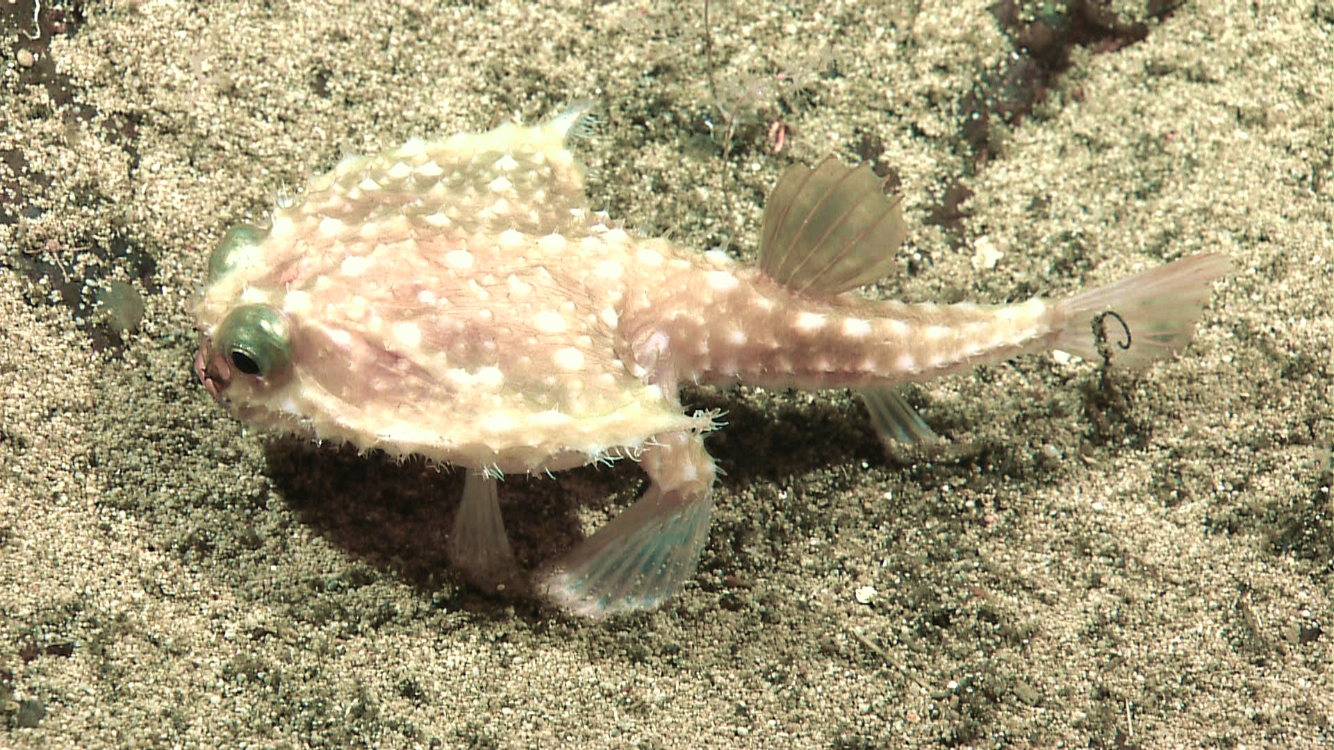 Deep-sea fish, such as this toadfish, have evolved bizarre morphological features as adaptations to this extreme enviroment. Image captured by the Little Hercules ROV at 600 meters depth on the Paramount seamounts. Image ID: expl6362, Voyage To Inner Space - Exploring the Seas With NOAA Collect Location: Pacific Ocean, Paramount Seamount Photo Date: 2011 July 14 Credit: NOAA Okeanos Explorer Program, Galapagos Rift Expedition 2011